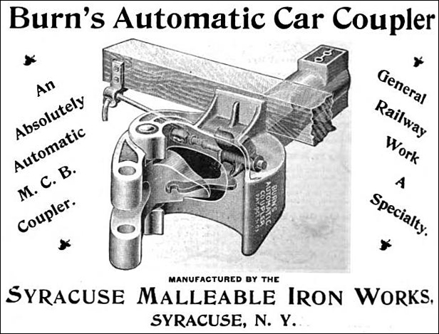 Advertisement for Burn's Automatic Car Coupler, manufactured by Syracuse Malleable Iron Works.